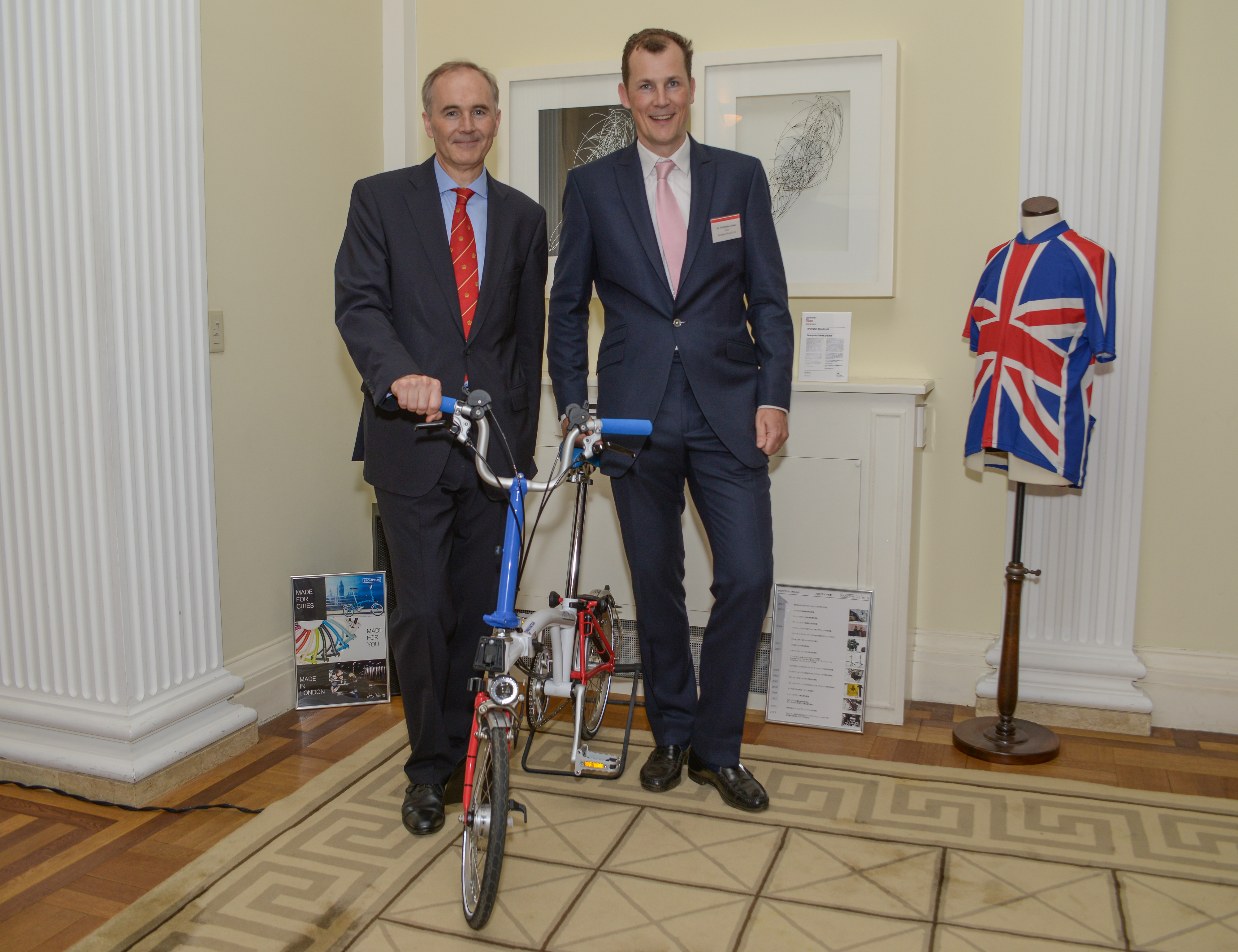 British Ambassador to Japan Tim Hitchens with Will Butler-Adams, Managing Director of Brompton Bicycle Limited